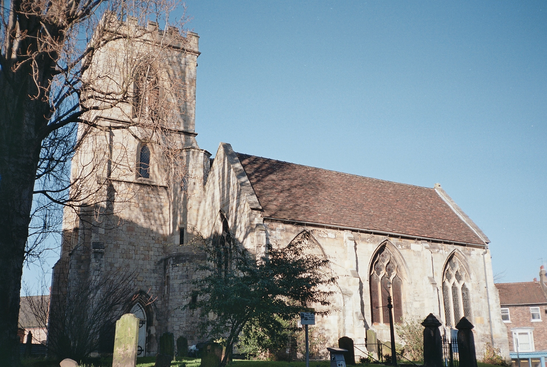 View of St Denys Church taken from St Denys Road